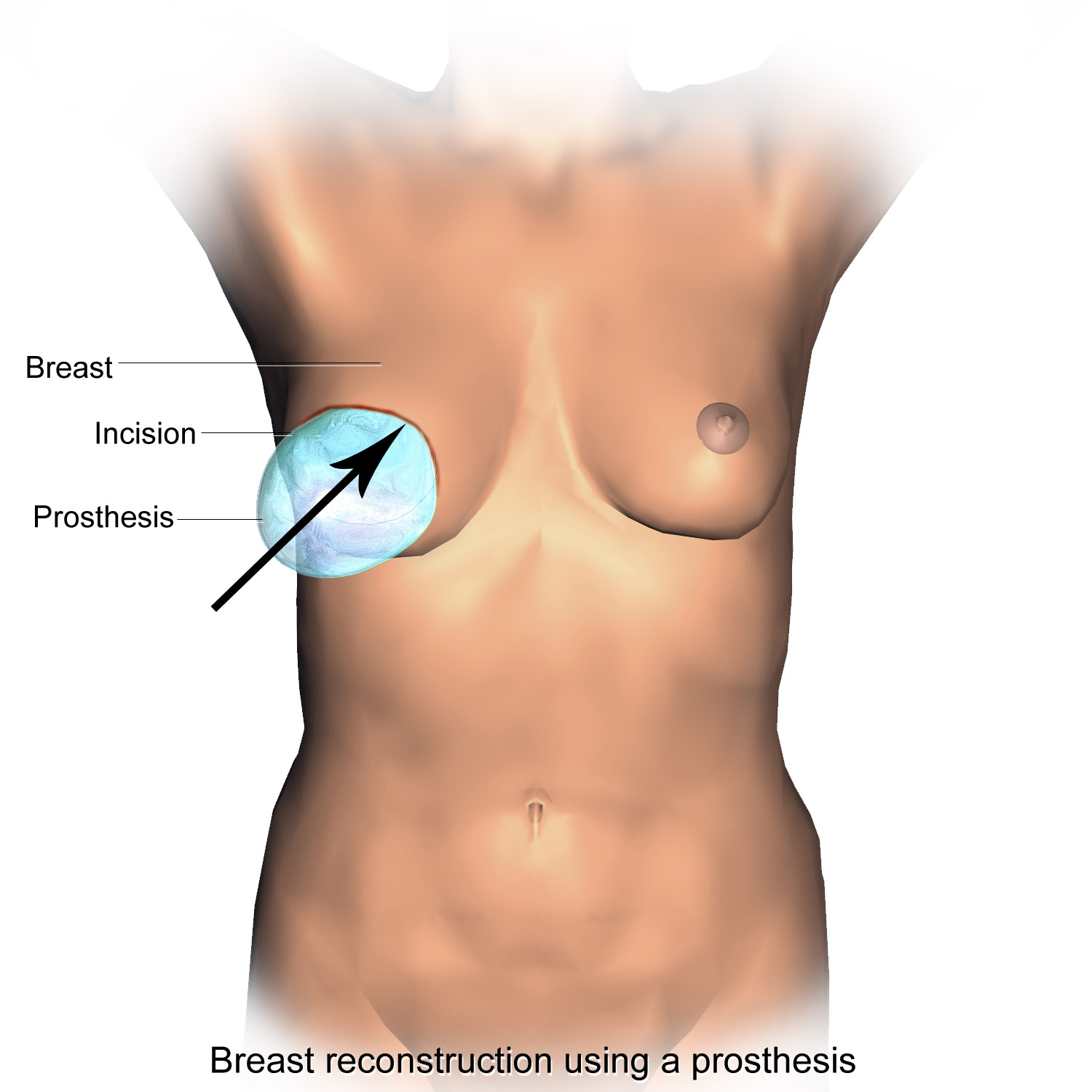 Breast Reconstruction - Prosthesis. See a related animation of this medical topic.